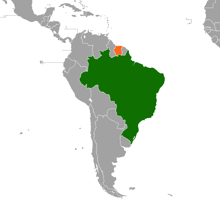 Locator map for Brazil and Suriname